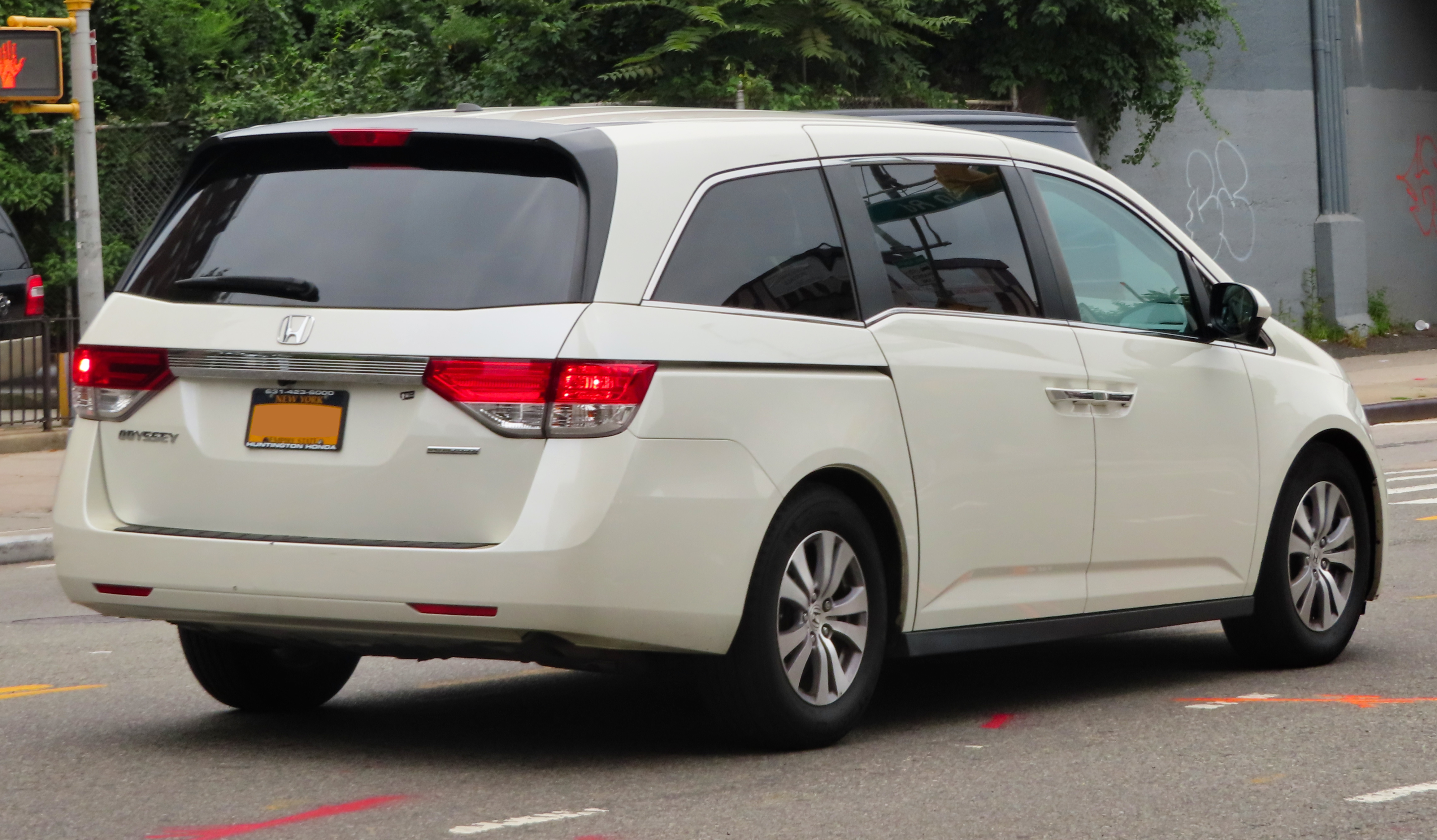 A 2017 Honda Odyssey SE photographed in Flushing, Queens, New York, USA